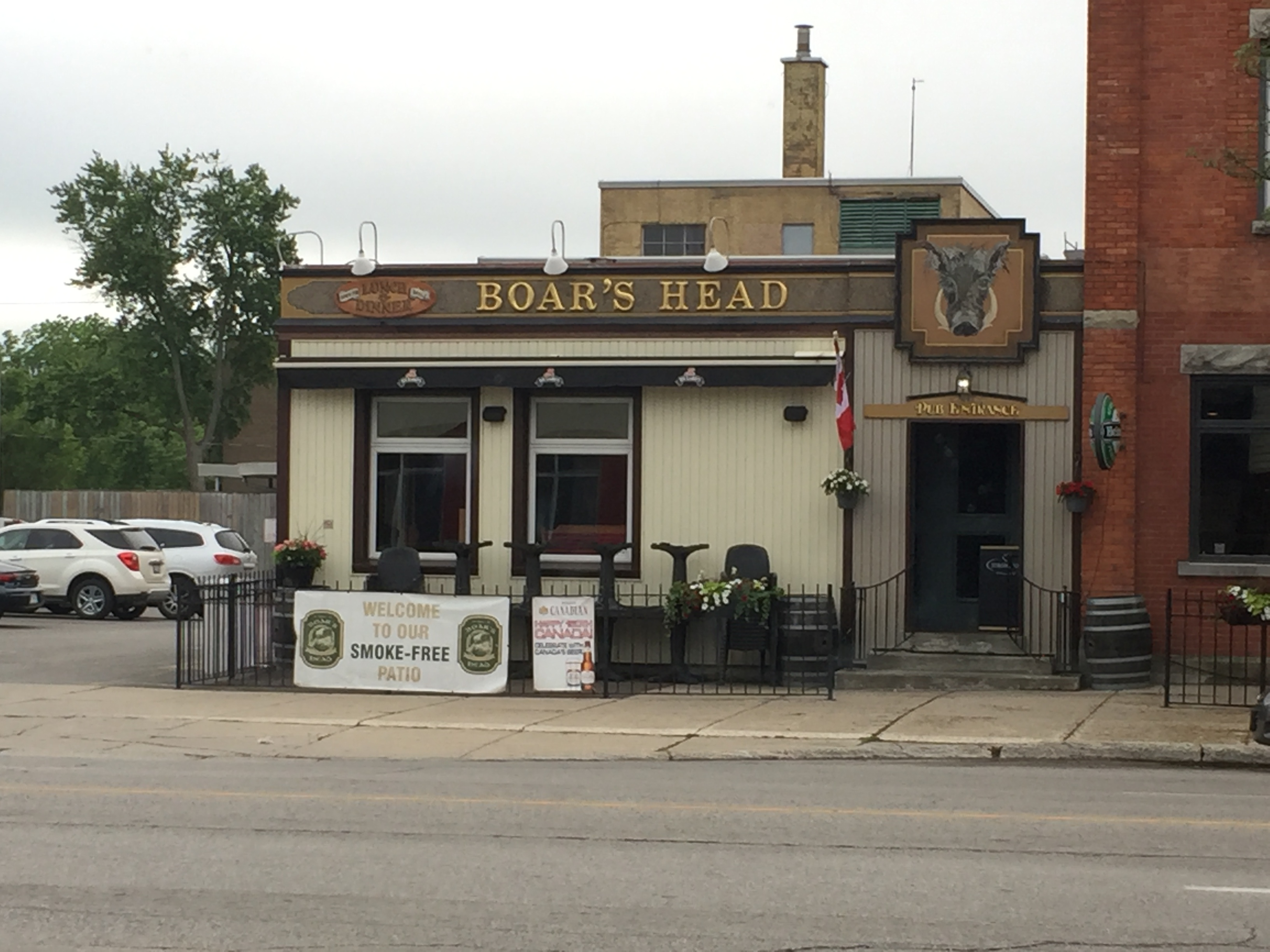 Boar's Head, Stratford, Ontario